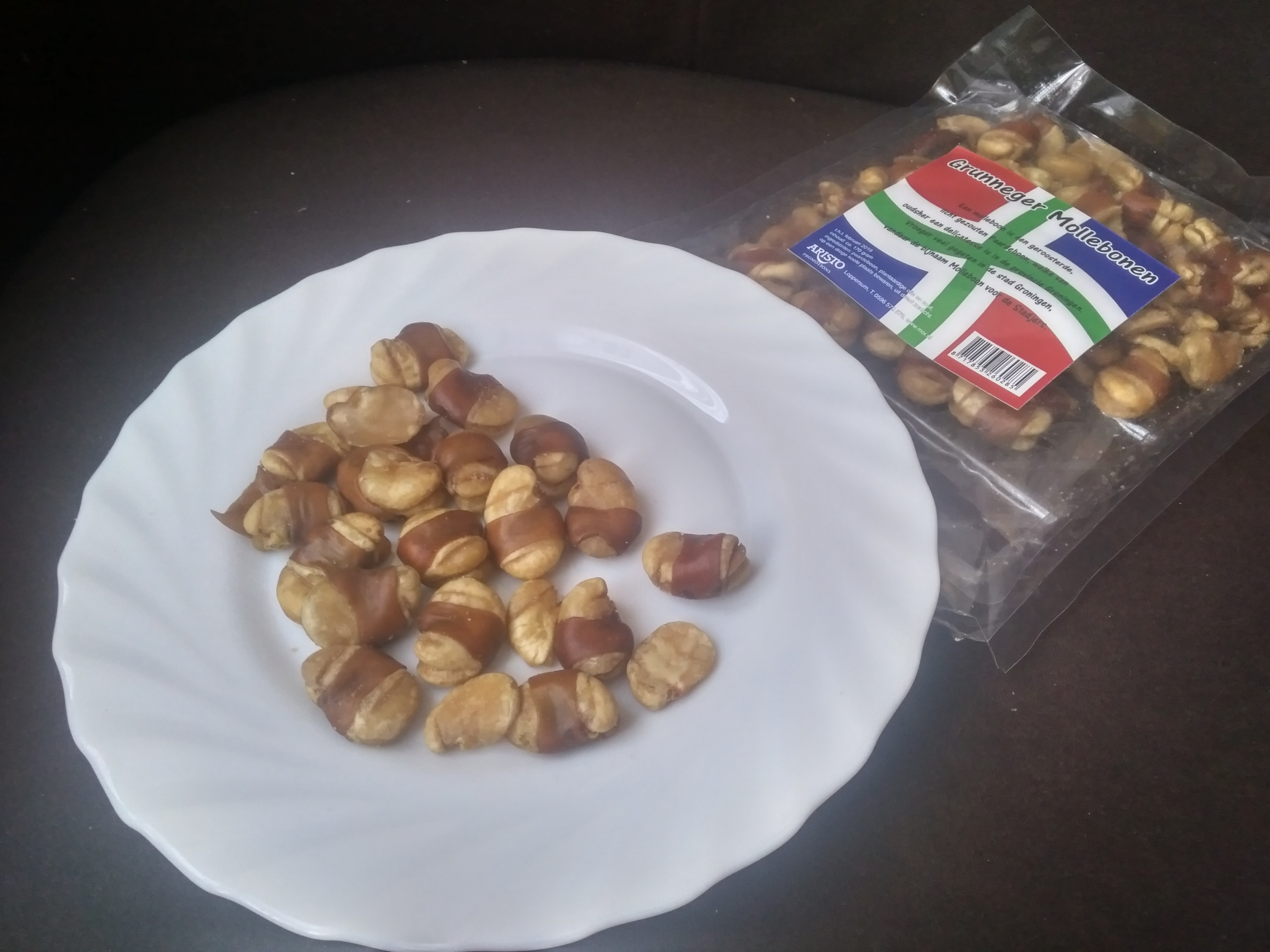 A plate full of Grunneger mollebonen (Broad Bean).